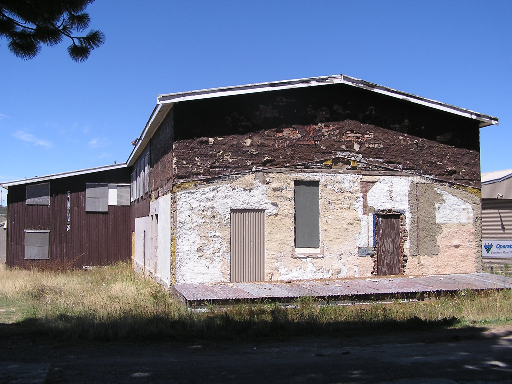 Court house at Kiandra, New South Wales, Australia Kiandra is within the Kosciuszko National Park Picture taken by AYArktos February 2006